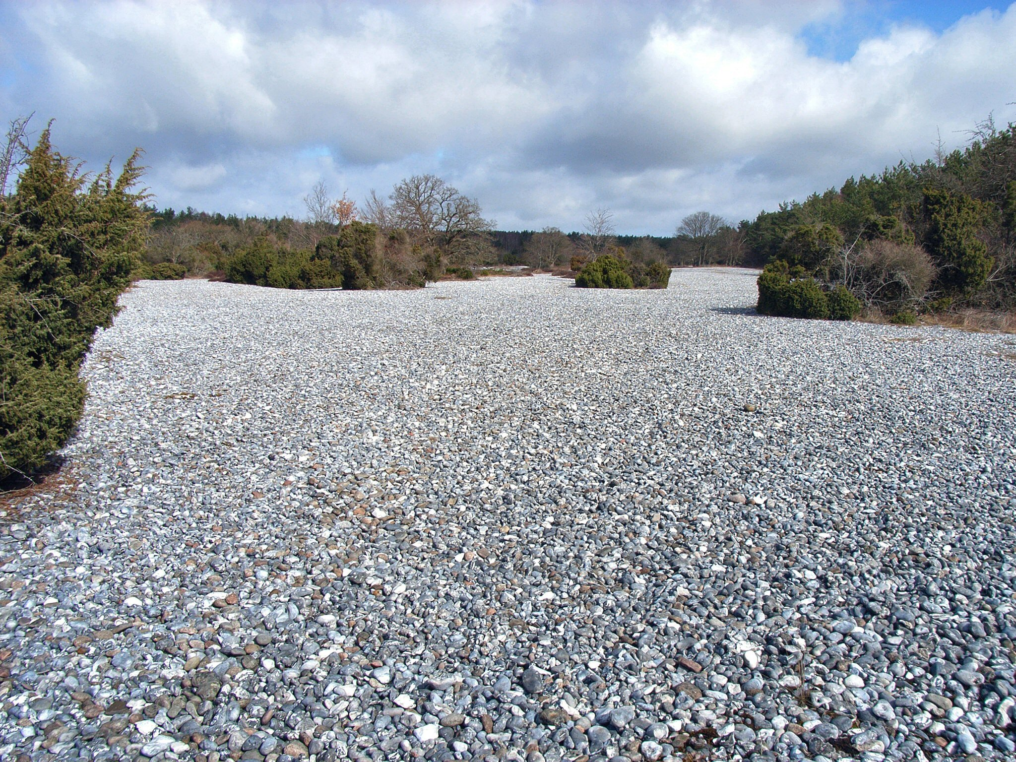 Flintstone fields near Neu Mukran (island Rügen, Germany); part of the "Stone Fields in the Schmale Heath and Extension" nature reserve